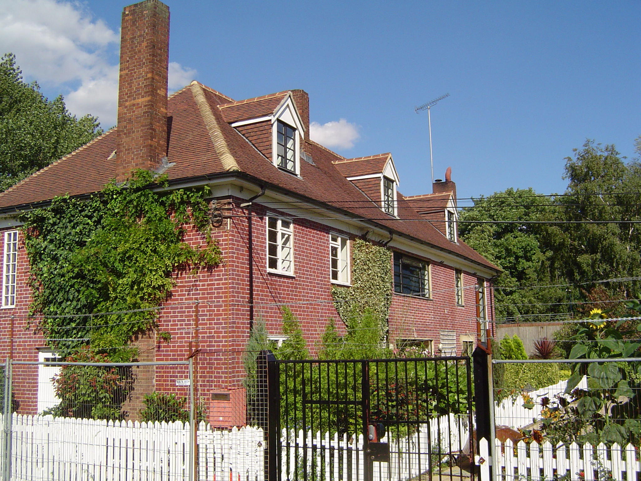 Lock Keeper's Cottages, Old Ford, East London.